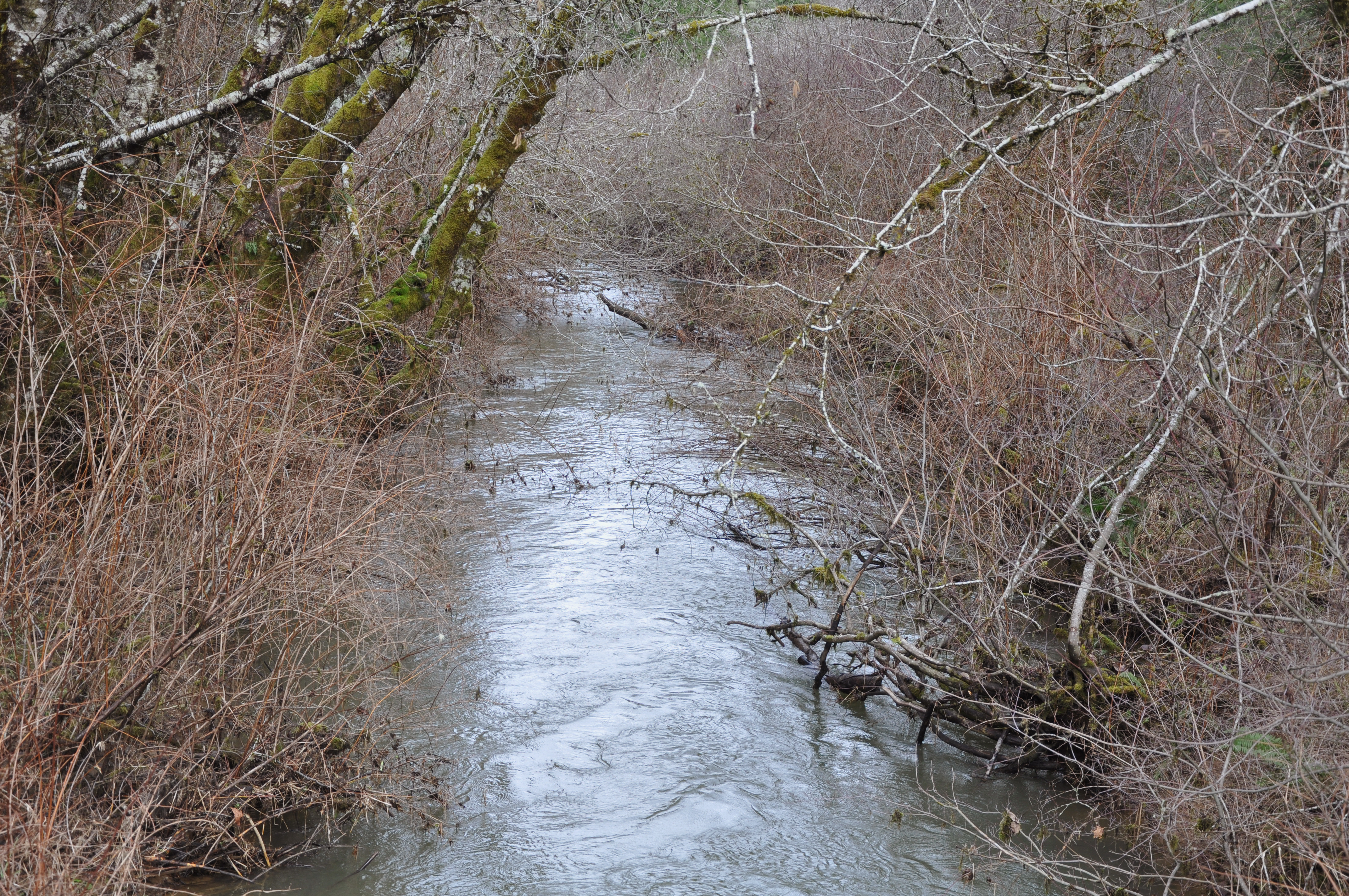 Rogue River, a tributary of the South Yamhill River in the Central Oregon Coast Range in the U.S. state of Oregon. Not to be confused with the much larger Rogue River in southern Oregon. View is downstream from Oregon Route 18 near Grande Ronde.